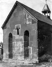 Gethsemane chapel Yerevan 1901.